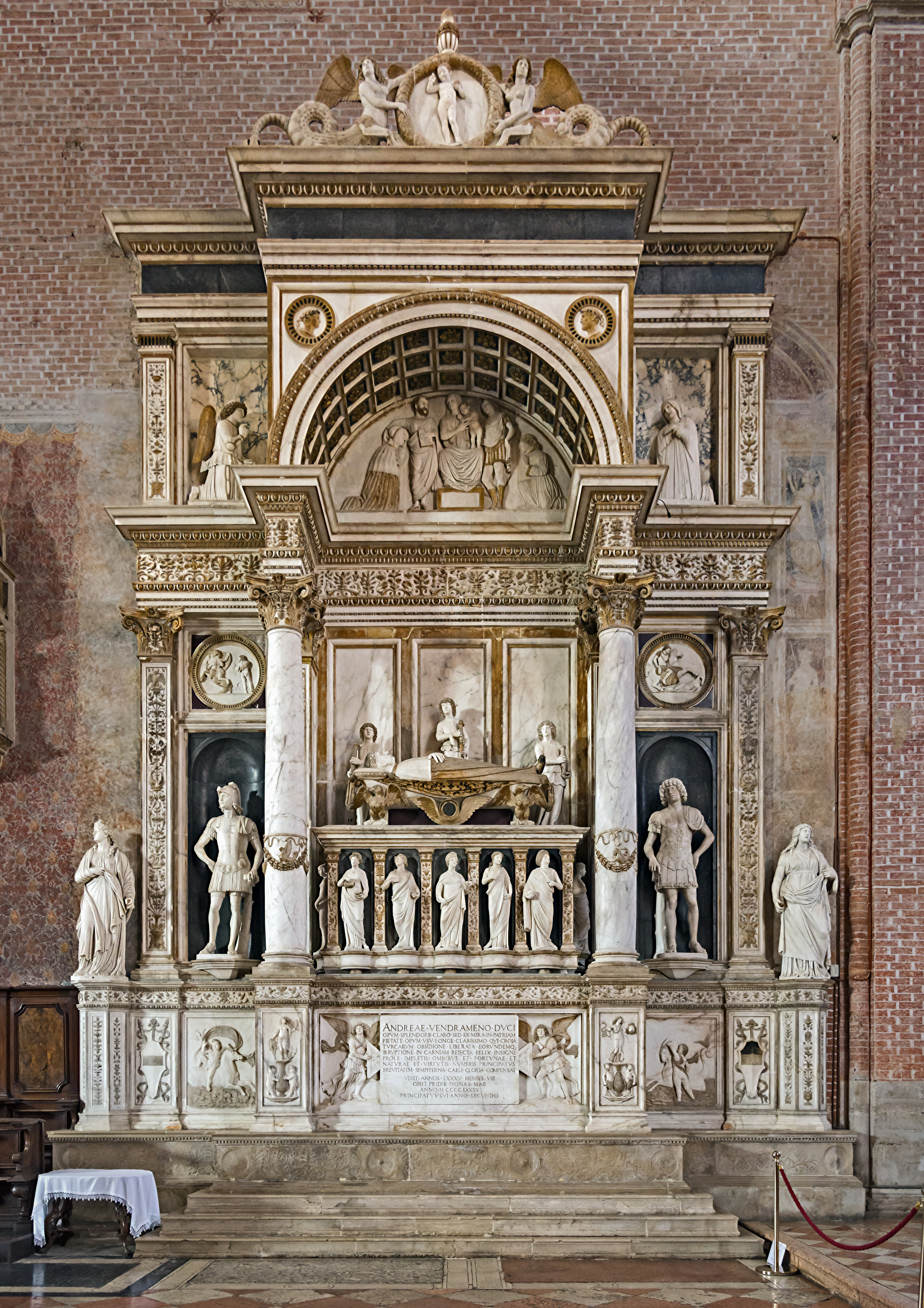 Choir of Santi Giovanni e Paolo in Venice. Tomb of the Doge Andrea Vendramin by Tullio Lombardo.